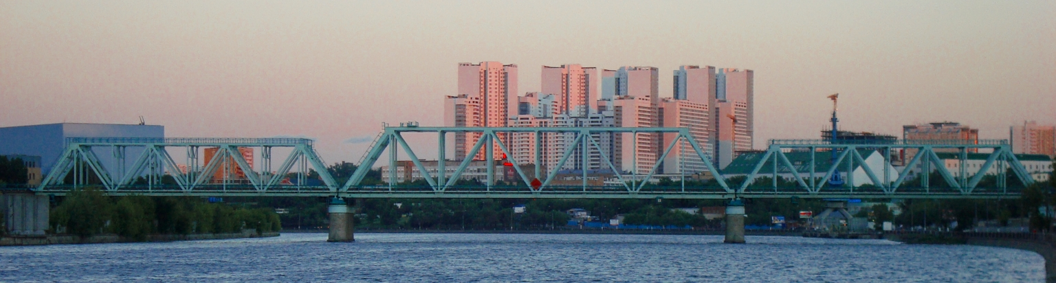 Danilovskiy railway bridge over the Moskva-river. Moscow, Russia.